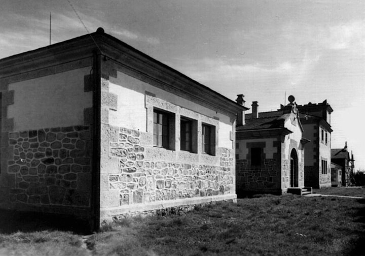 fingoy college